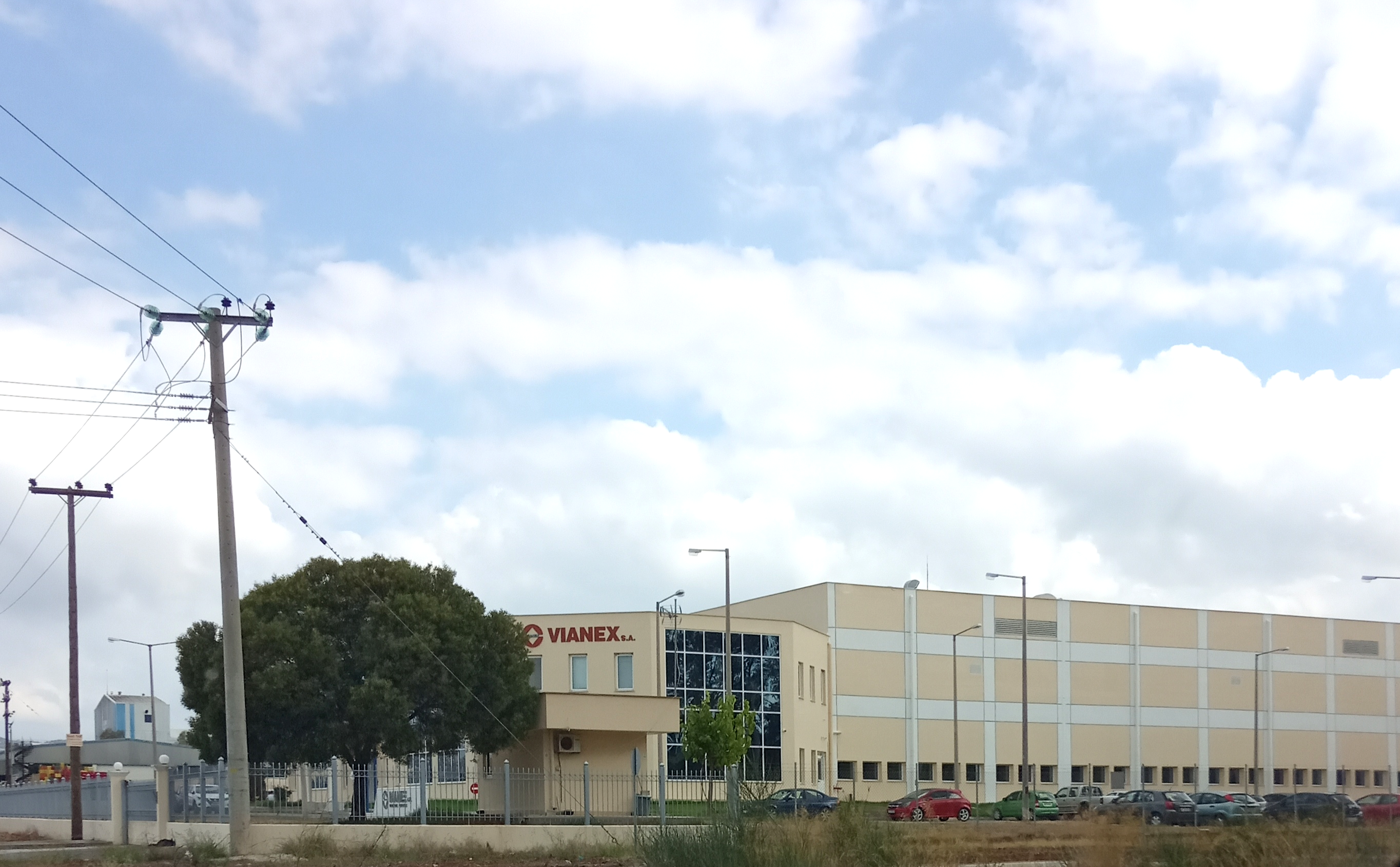 Partial view of the 4th factory (plant D) of VIANEX S.A. pharmaceutical company. It is located in the industrial zone of Patras.